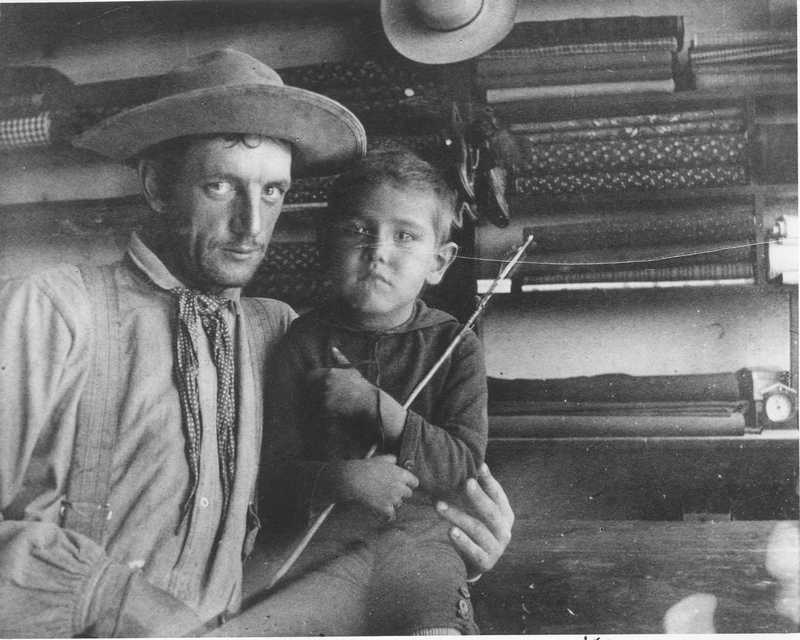 Title: James Willard Schultz and Lone Wolf (Hart Merriam Schultz) in 1884 Creator: Unknown Date: 1884 Description: Photo of a small boy sitting on counter holding an arrow and a man with his arm around him, in side a shop, fabric lines shop wall. Written on verso: James WIllard Schultz & Hart Merriam Schultz (Lone Wolf). Photo taken in 1884 at the Kipps Trading Post below the old agency at Robare. Lone Wolf is 2 years old. • I represent Montana State University Library and we are releasing this image into the Creative Commons. Object's Physical Description: image/jpg Keywords: james willard schultz, hart merriam schultz, stores and shops Object ID: 303